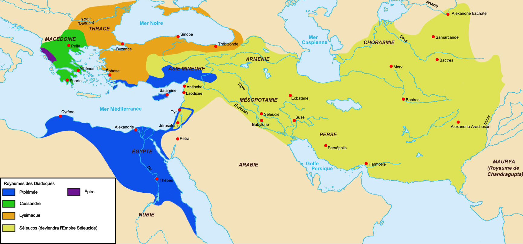 Map of the Diadochs kingdoms, french language